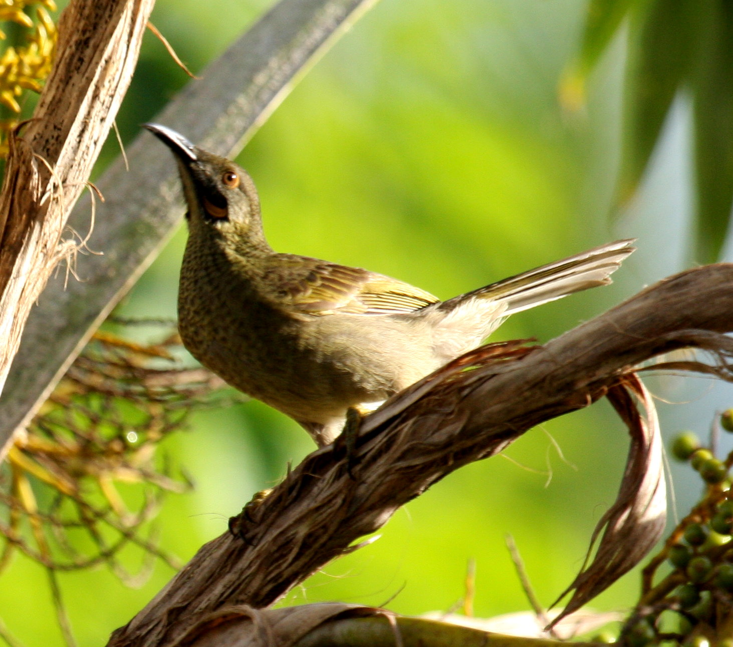 Wattled Honeyeater (Foulehaio carunculatus) Nadi, Viti Levu, Fiji Isles